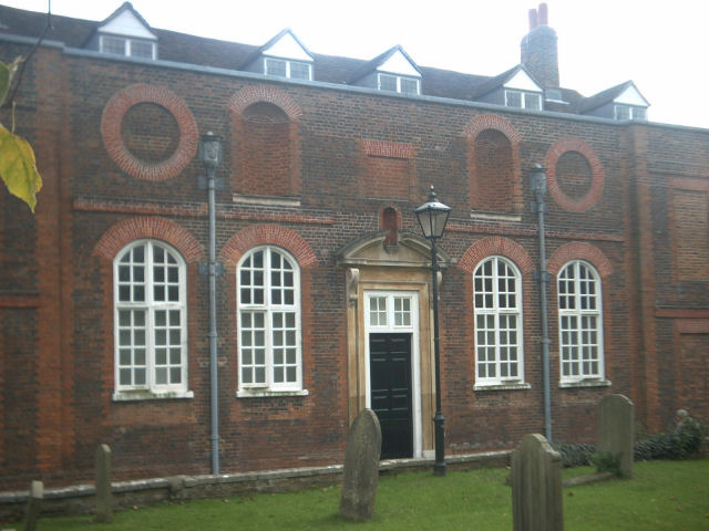 The Old Grammar School in Church Square in Aylesbury, Buckinghamshire, England.